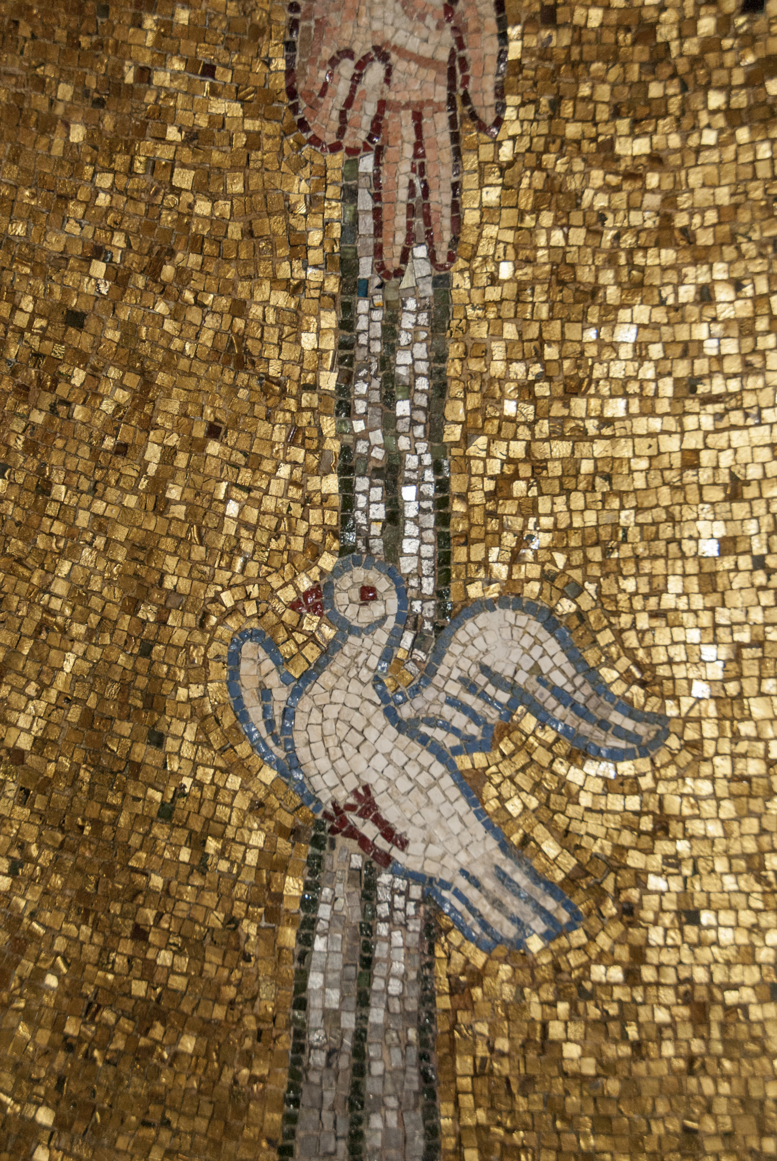 Dafni Monastery, detail from mosaic depicting the Baptism : hand of God and Holy Spirit«Μονή Δαφνίου»